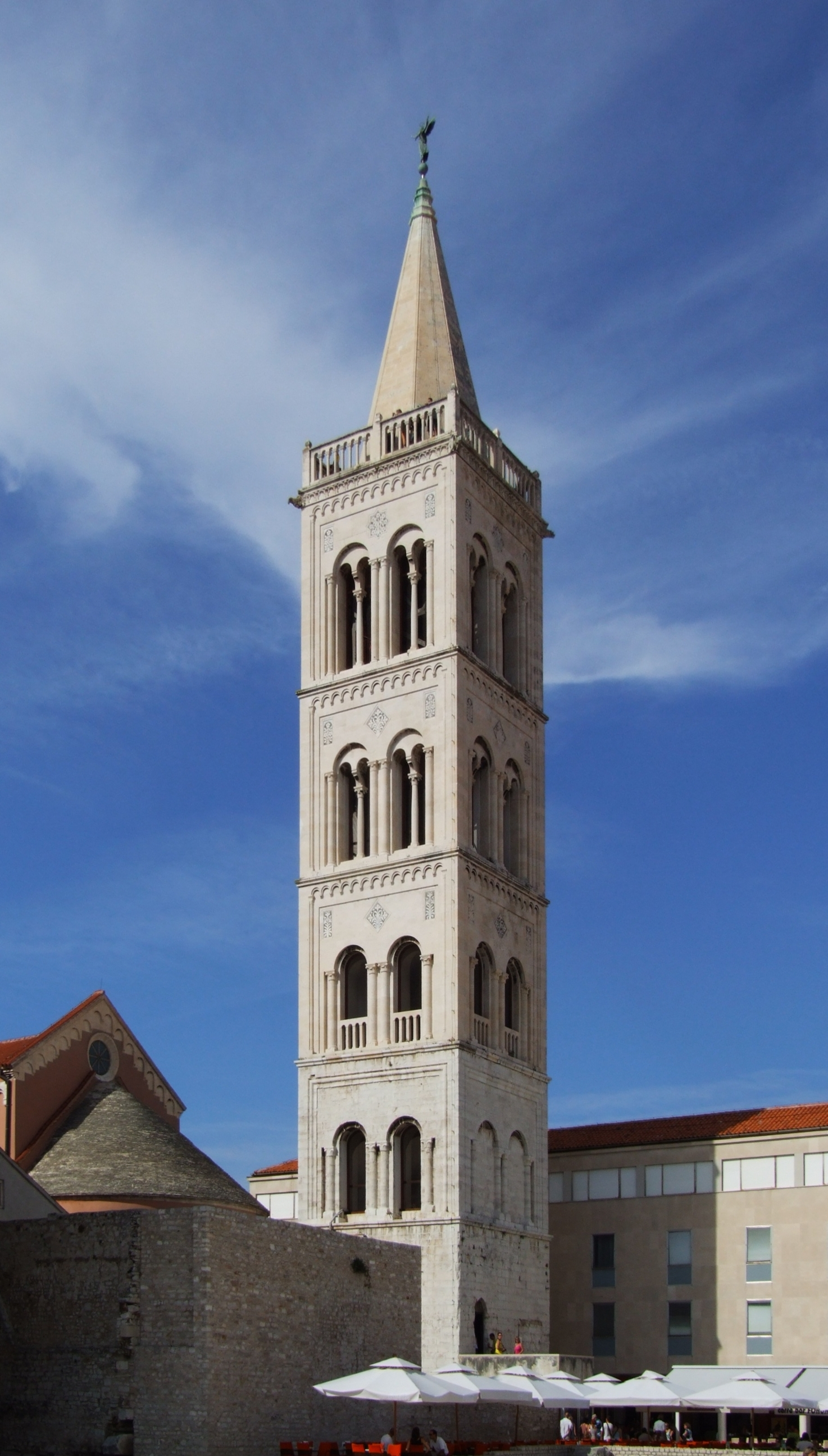 Cathedral of St. Anastasia in Zadar - tower